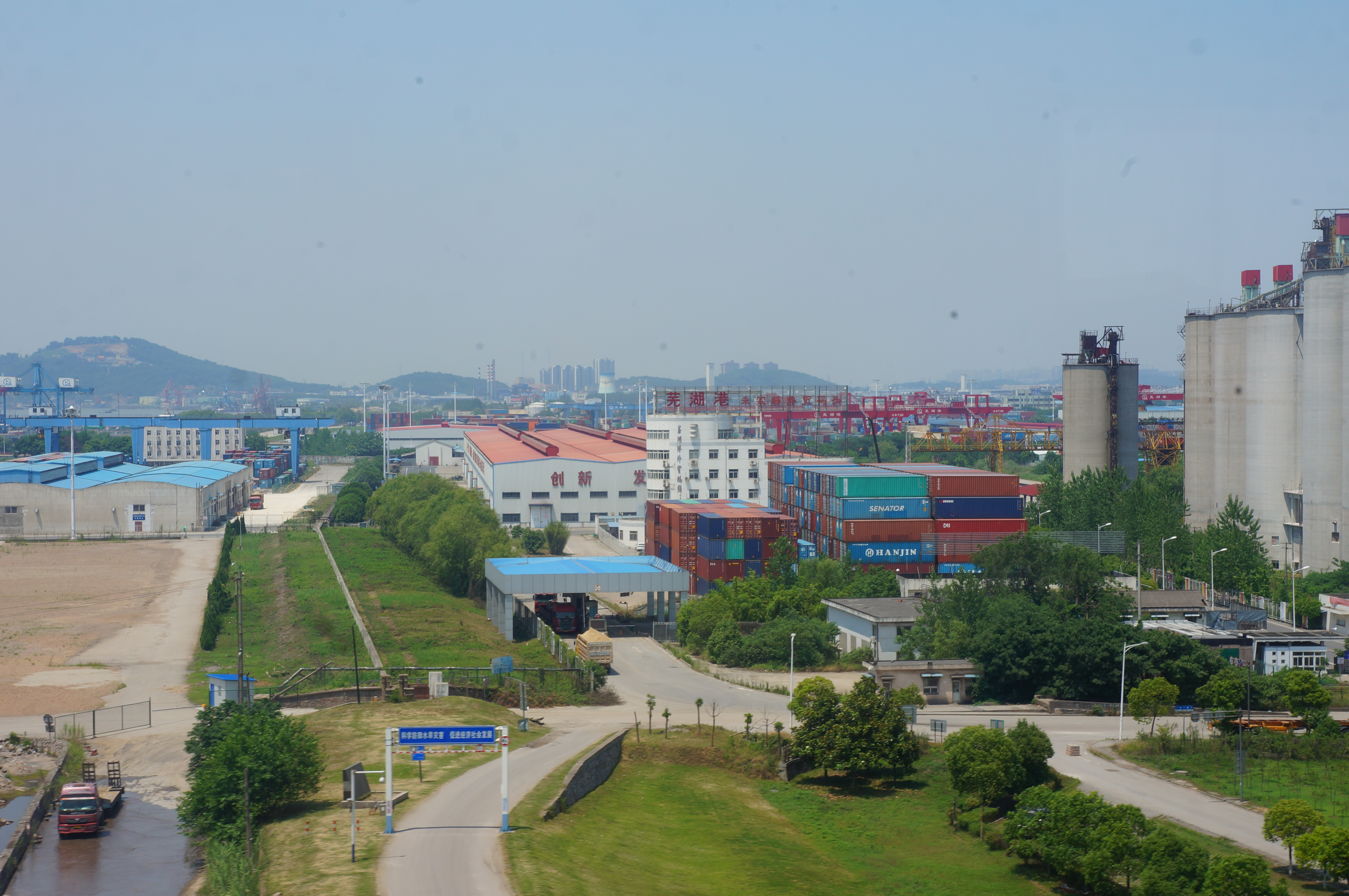 201705 Containers at Wuhu Port